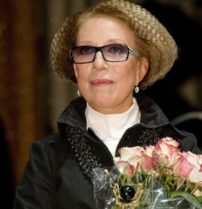 Inna Churikova 2009